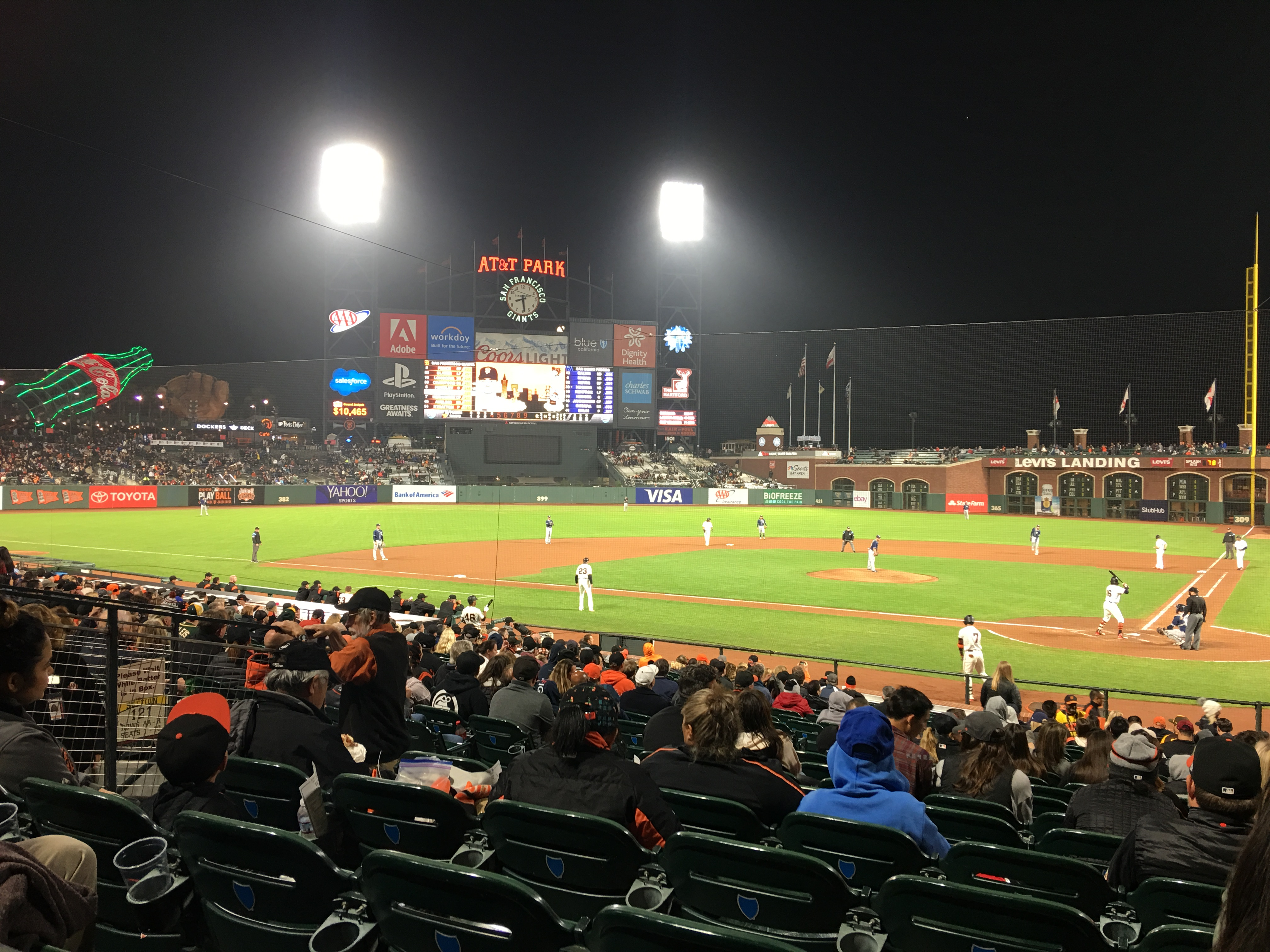 A Giants’ night game at Oracle Park